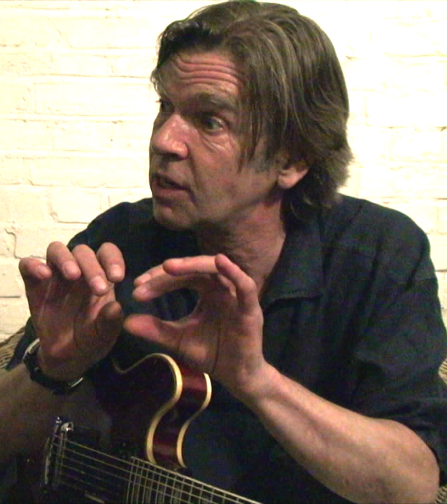 Neil Hubbard, a guitarist who has played for Juicy Lucy, The Grease Band, Bluesology, Joe Cocker, Roxy Music, Kokomo, B.B. King, Kevin Rowland and Tony O'Malley, and who played on the original 1970 concept album, Jesus Christ Superstar.A still taken from an Acabashi filmed and authored HD video at a musical performance at The Three Mariners, Oare, Faversham, Kent, U.K. Video still edited in Photoshop CS2.